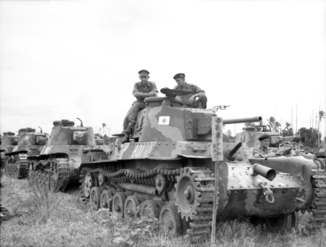 Rapopo Airstrip, New Britain - Officers of 2/4 Armoured Regiment sitting on a Japanese Type 97 Chi-Ha medium tank which bears the insignia of a Japanese commanding officer. Following the surrender of the Japanese a number of Japanese light and medium tanks and armoured cars were lined up on the airstrip.